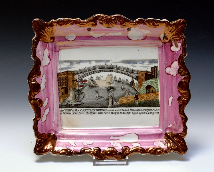 Sunderland Pottery commemorative plates